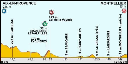 Tour de France 2013 - Profile Stage No. 6